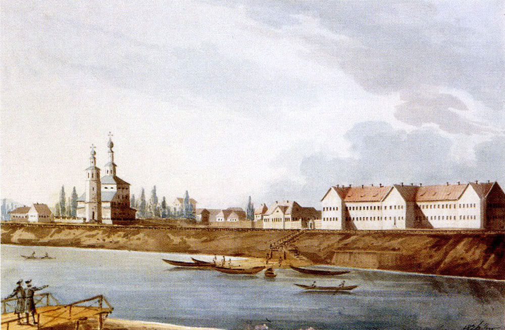 «View of the City of Arkhangelsk. Part of the Embankment with the chиrch of the St. Trinity». This is picture of russian painter Valerian Galyanin